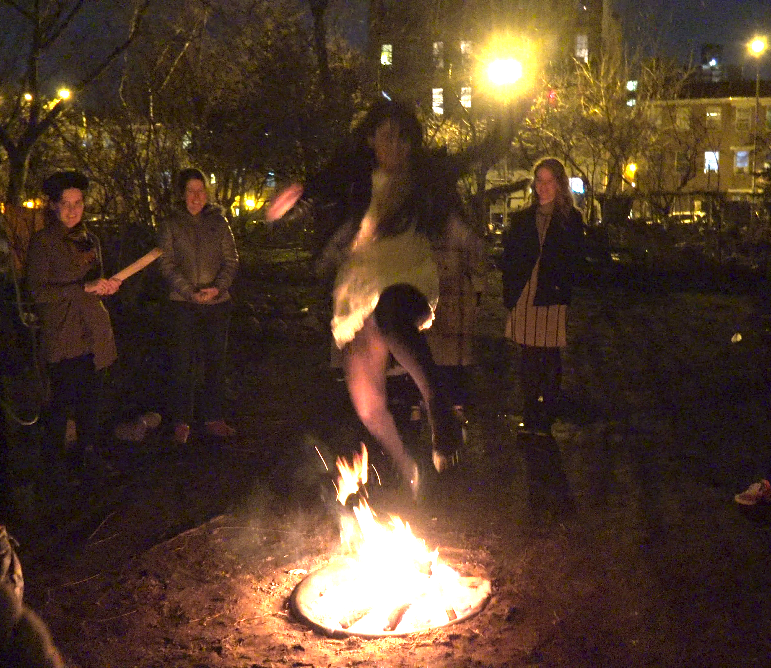 Chaharshanbe Suri in New York City fire jumping